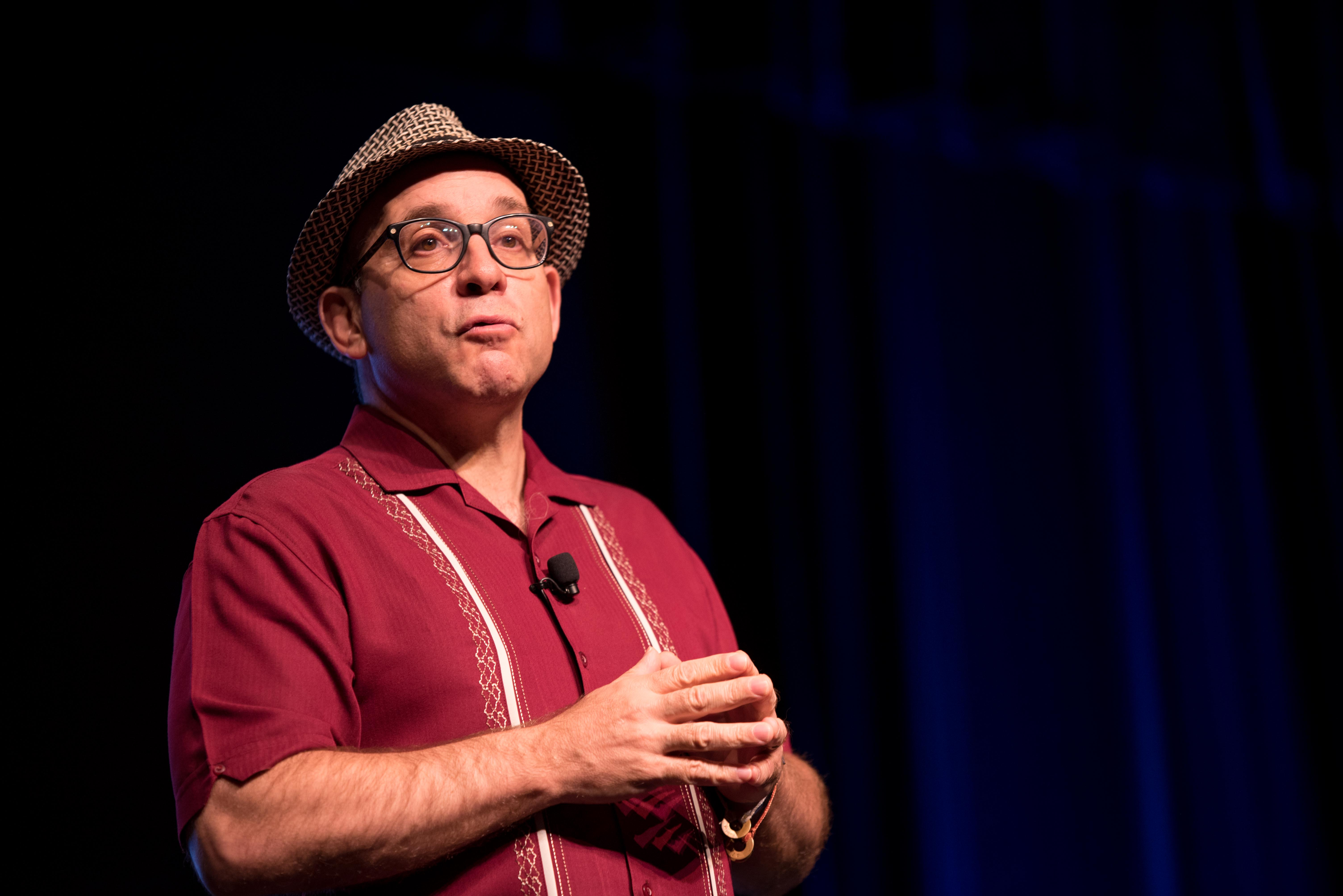 Cal Fussman